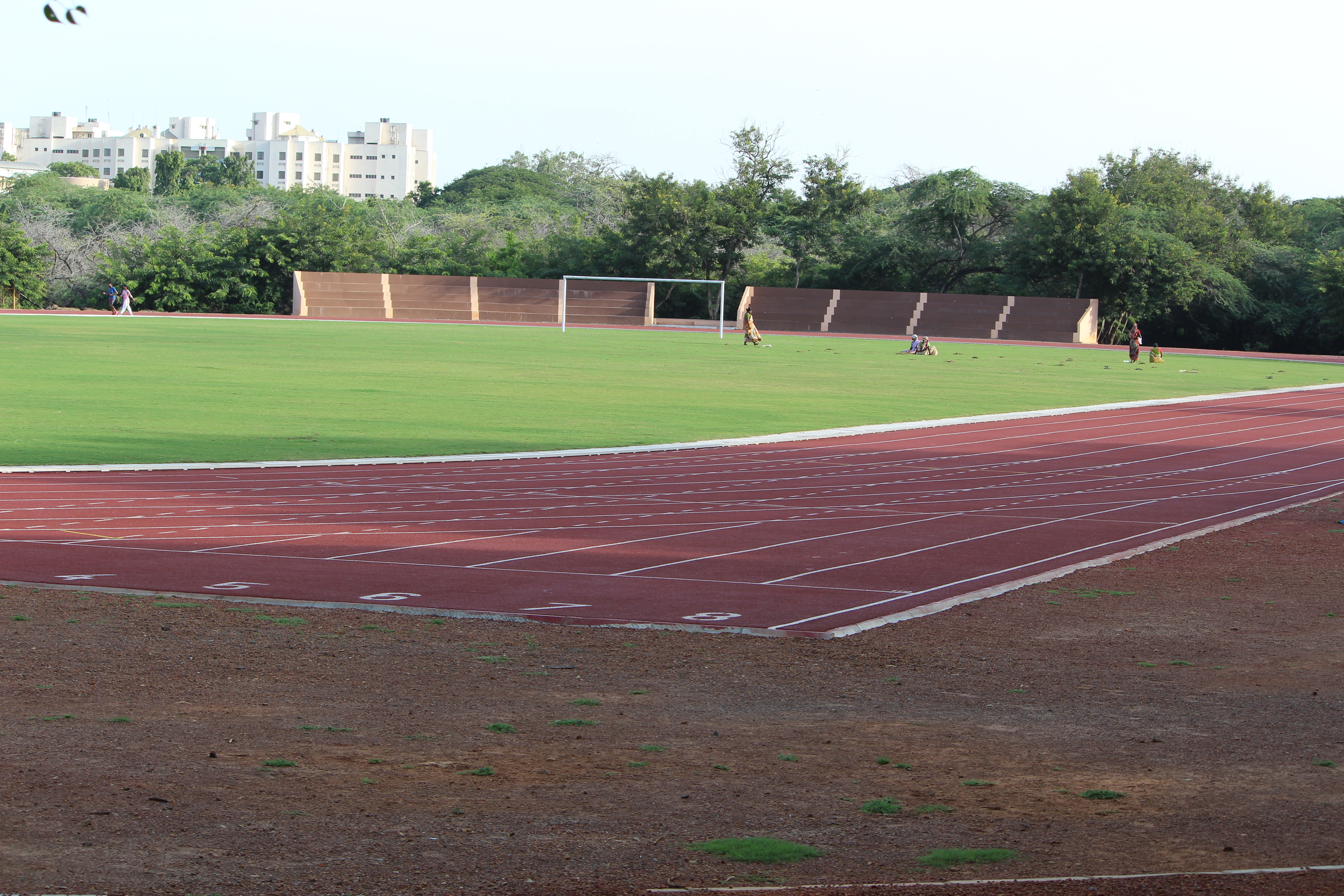 Manohar C Watsa Stadium IITM Synthetic Track